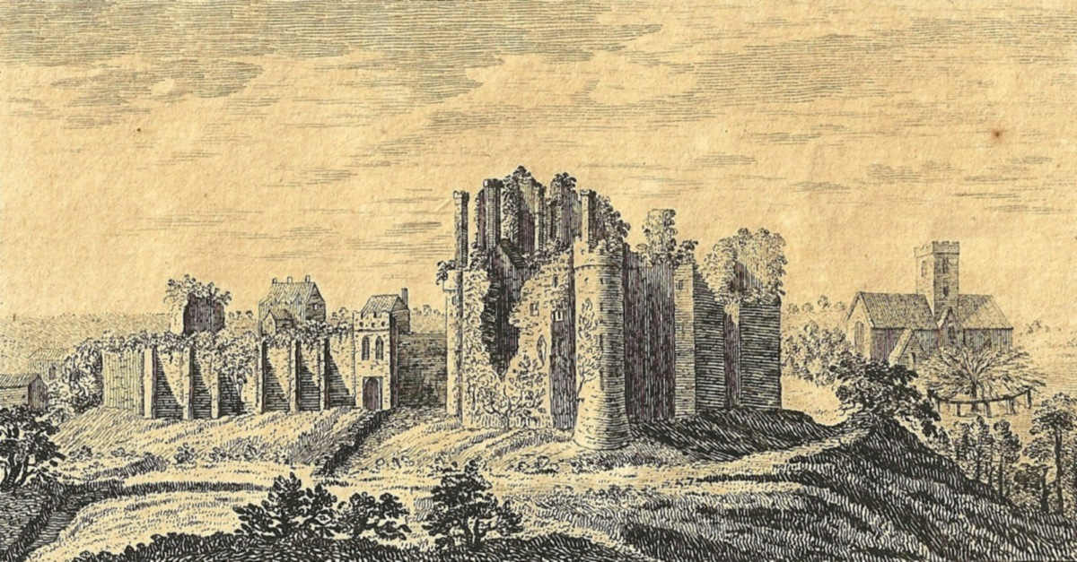 Engraving of Coity Castle